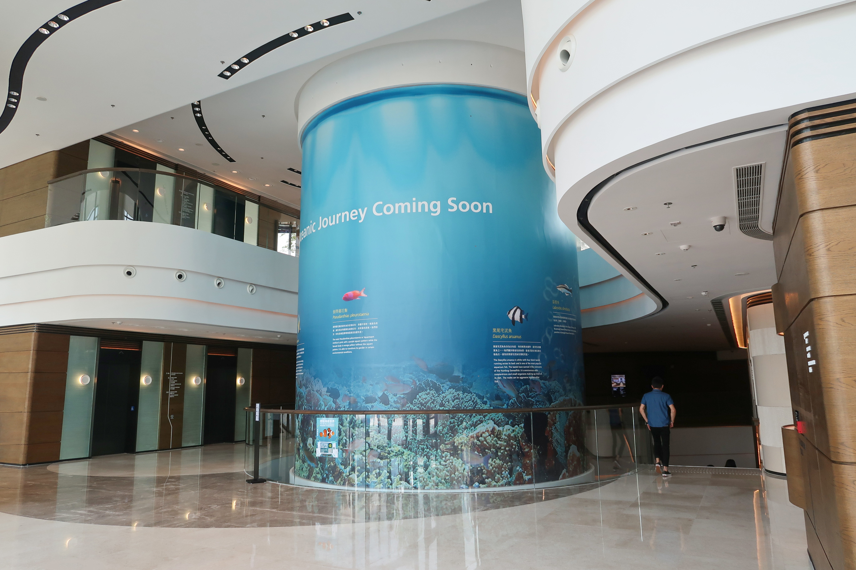 Hong Kong Ocean Park Marriott Hotel Lobby